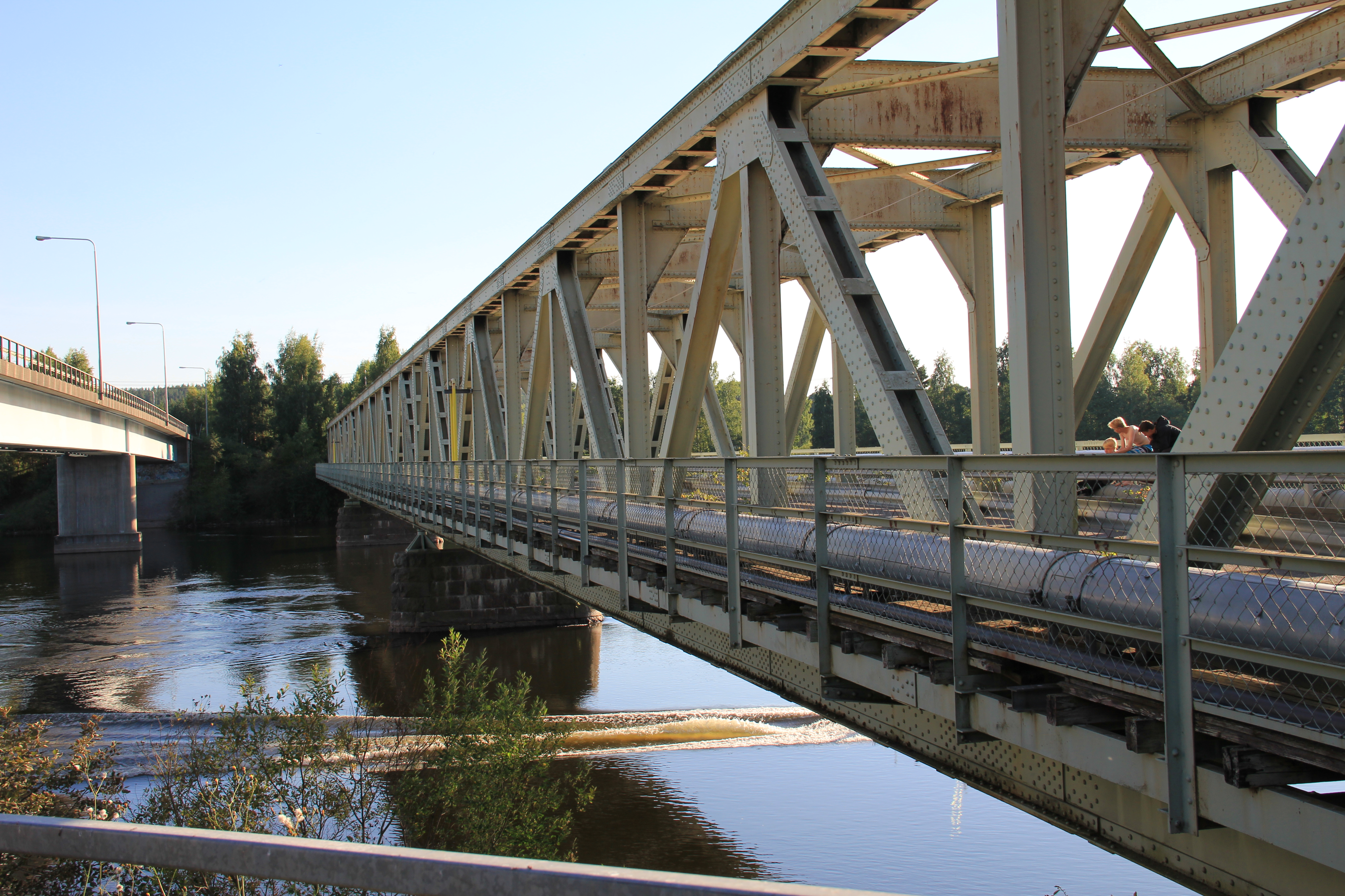 Voikkaa railway bridge (former), Voikkaa, Kouvola, Finland.